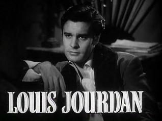 Cropped screenshot of Louis Jourdan from the film Madame Bovary